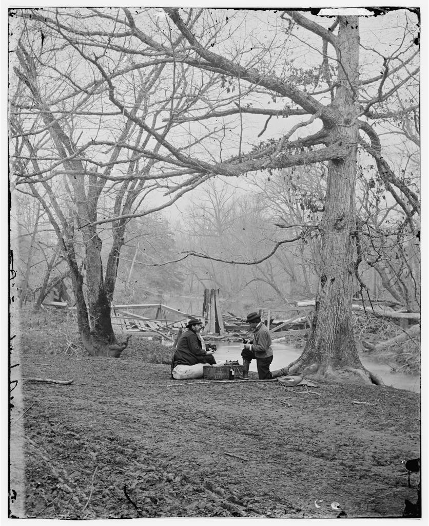 Photo of Centreville Military Railroad bridge on Bull Run in Virginia